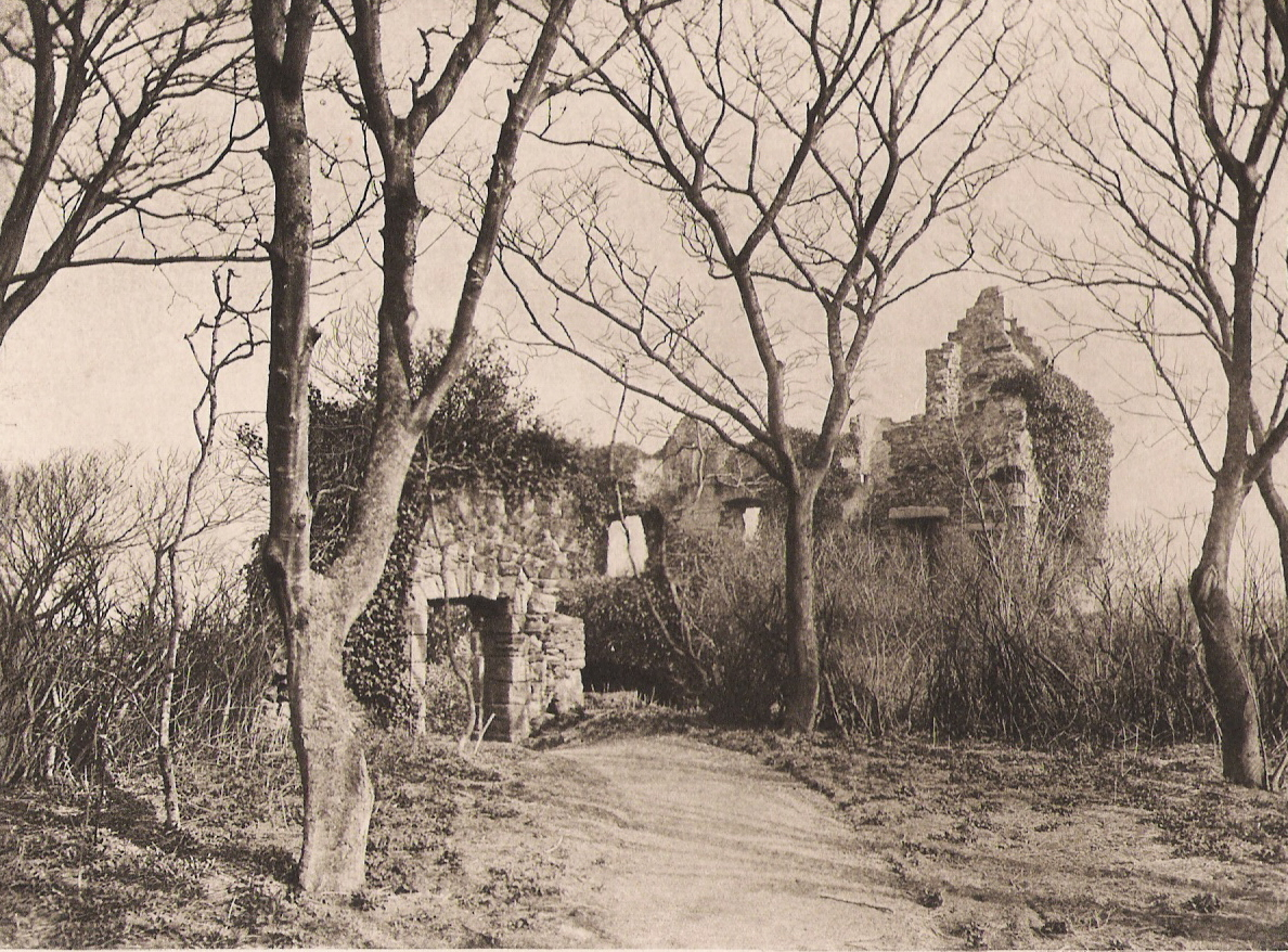 Plate in An Old Kirk Chronicle, Edinburgh, 1893. Out of Copyright.